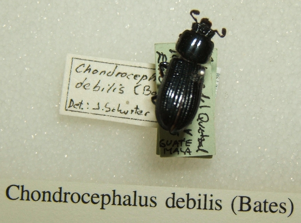 Chondrocephalus debilis adult taken by Shawn Hanrahan at the Texas A&M University Insect Collection in College Station, Texas.